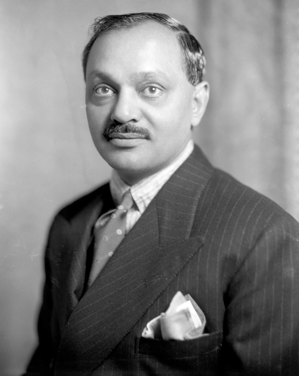 A portrait of Jam Shri Digvijaysinhji Ranjitsinhji Jadeja, Maharaja Jam Saheb of Nawanagar